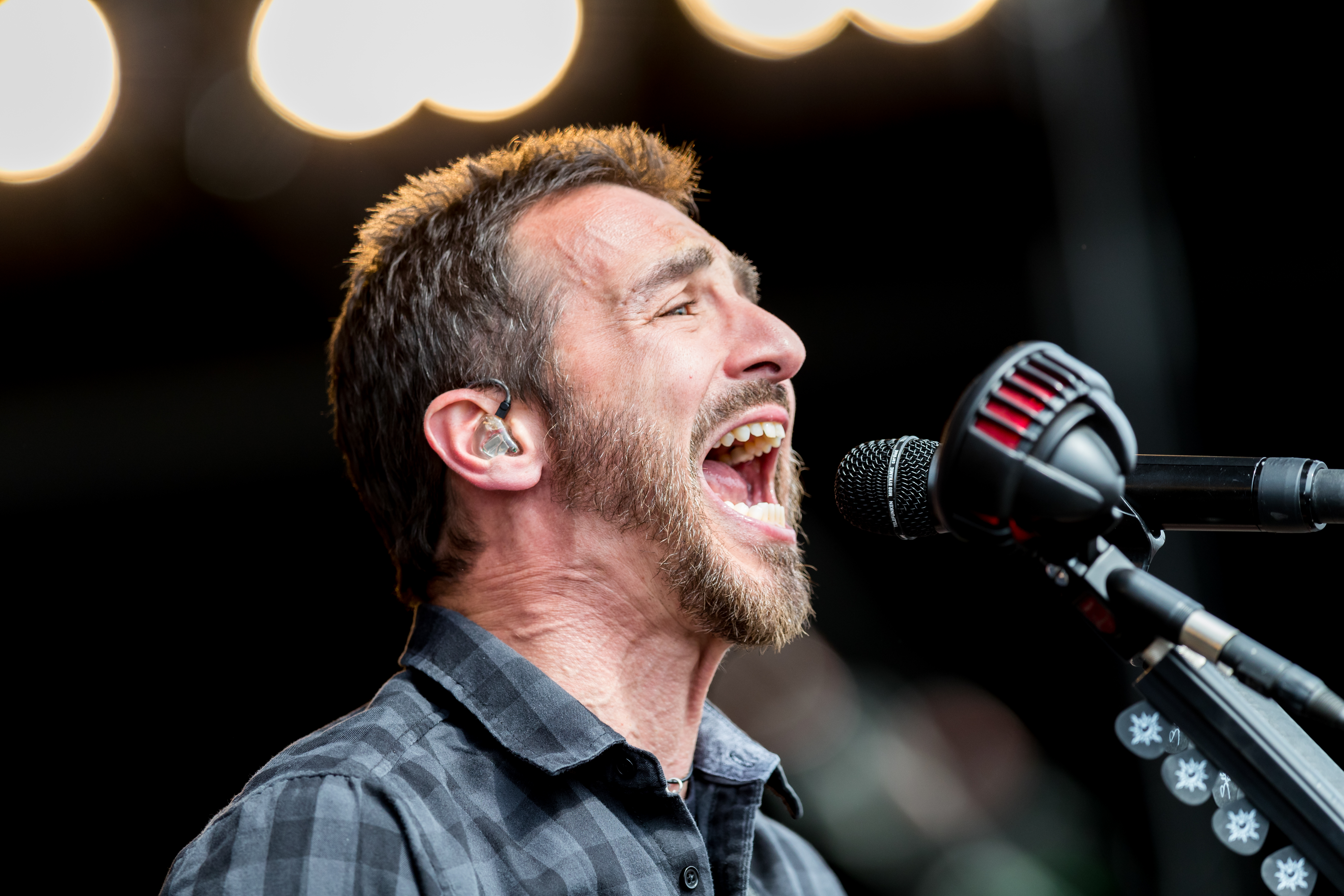 Godsmack during Rock am Ring ( at Nürburgring, Rheinland-Pfalz, Germany on 2019-06-09, Photo: Sven Mandel Promotion by Live Nation (